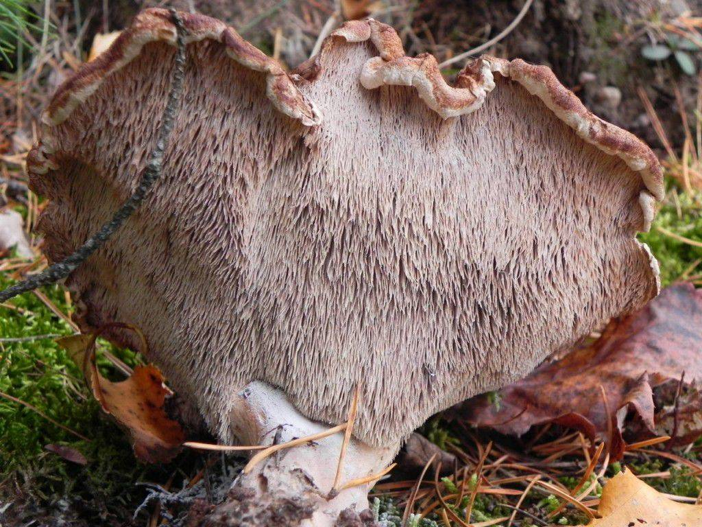 Bankera violascens (Alb. & Schwein.) Pouzar Location: Deep River, Ontario, Canada For more information about this, see the observation page at Mushroom Observer.